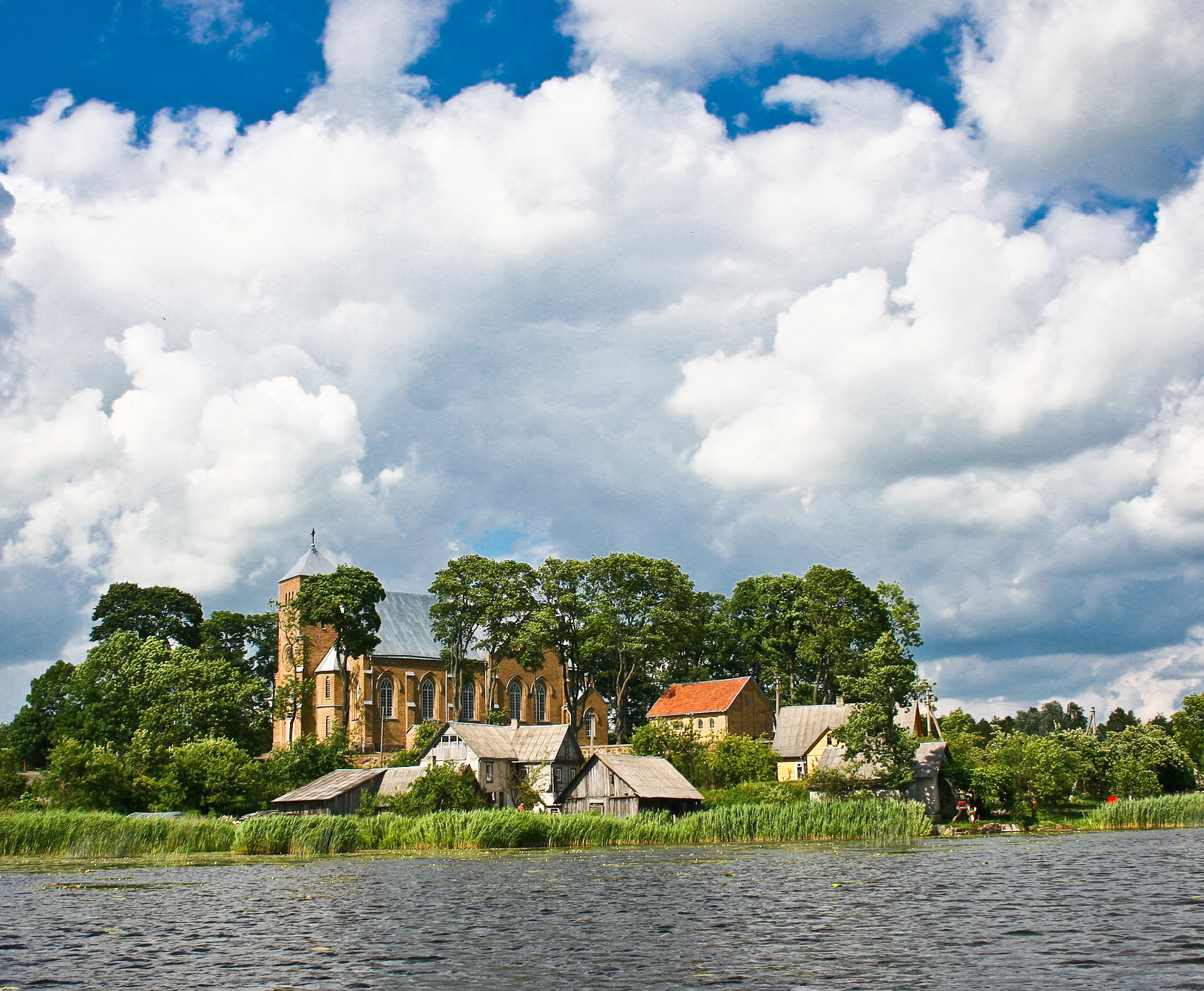 Vepriai (Lithuania) center and the church from the lake